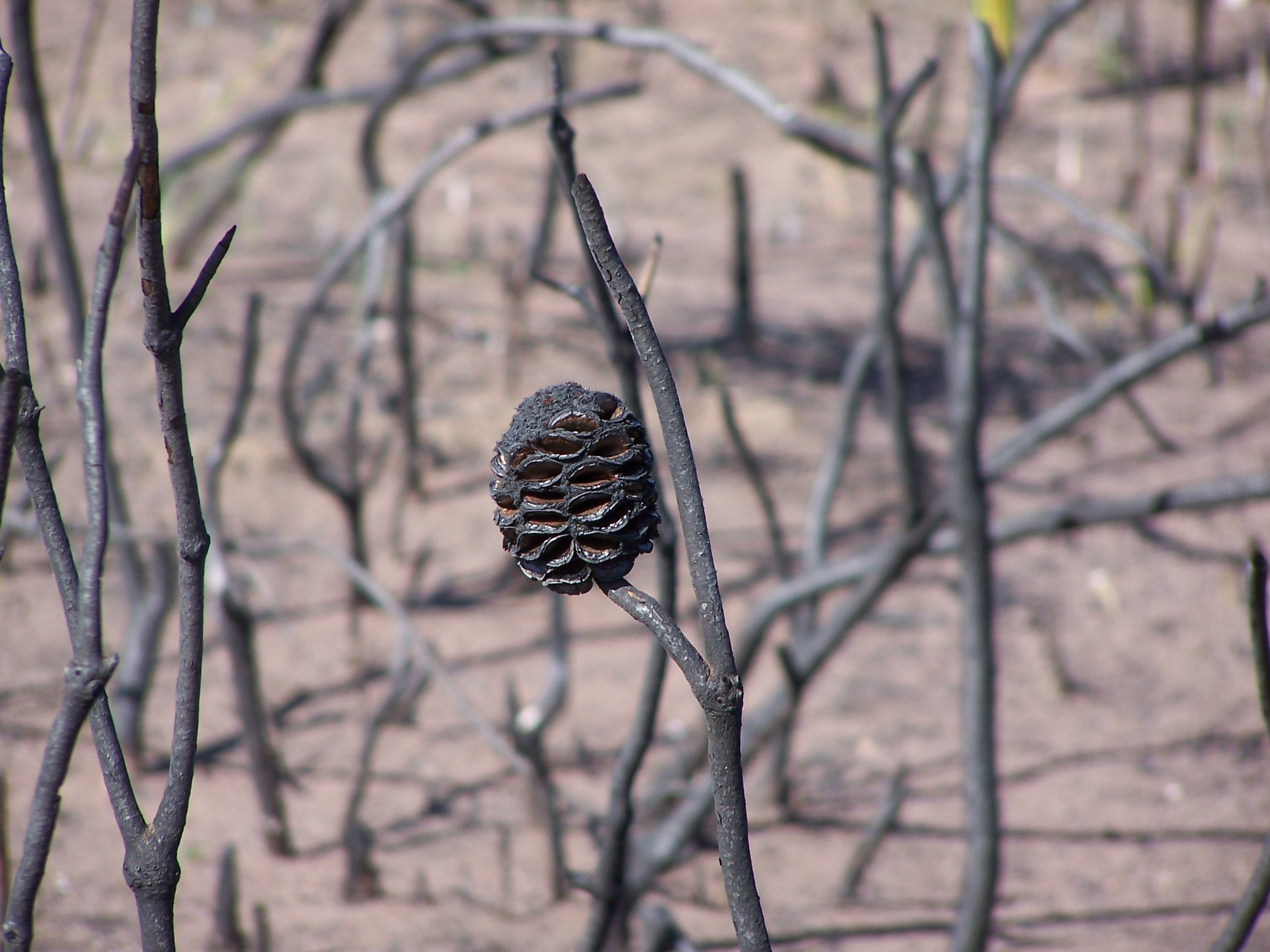 Banksia telmatiaea (Swamp Fox Banksia) after fire. The maternal plant has been killed, but the fire has also triggered the release of seed, ensuring population recovery. Images of Banksia telmatiaea taken in the Yule Brook Reserve, Kenwick Western Australia